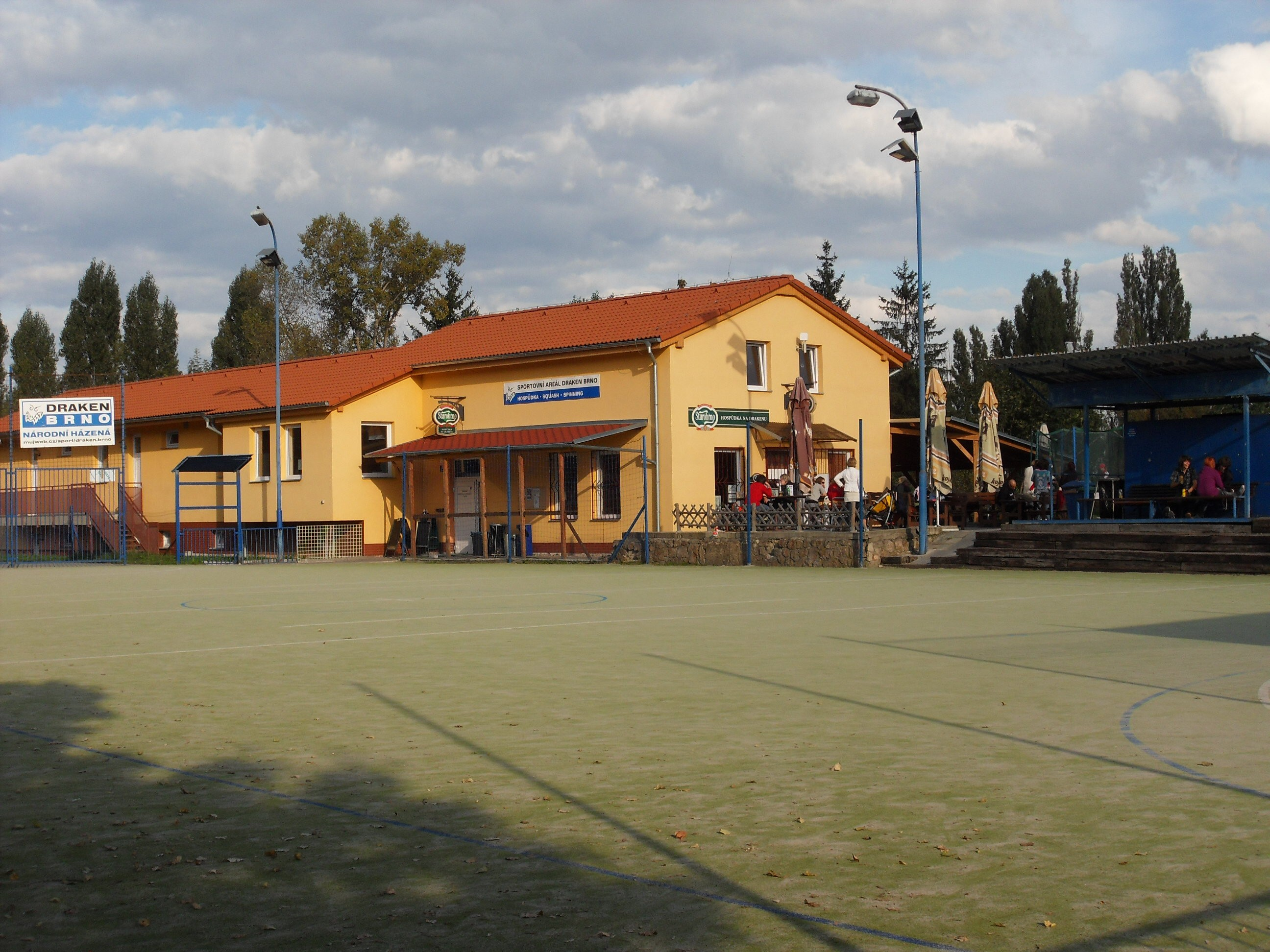 Playing field of Draken Brno, Brno, Czech Republic